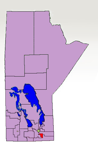 The boundaries of the provincial Steinbach electoral district in 2007 highlighted in red.